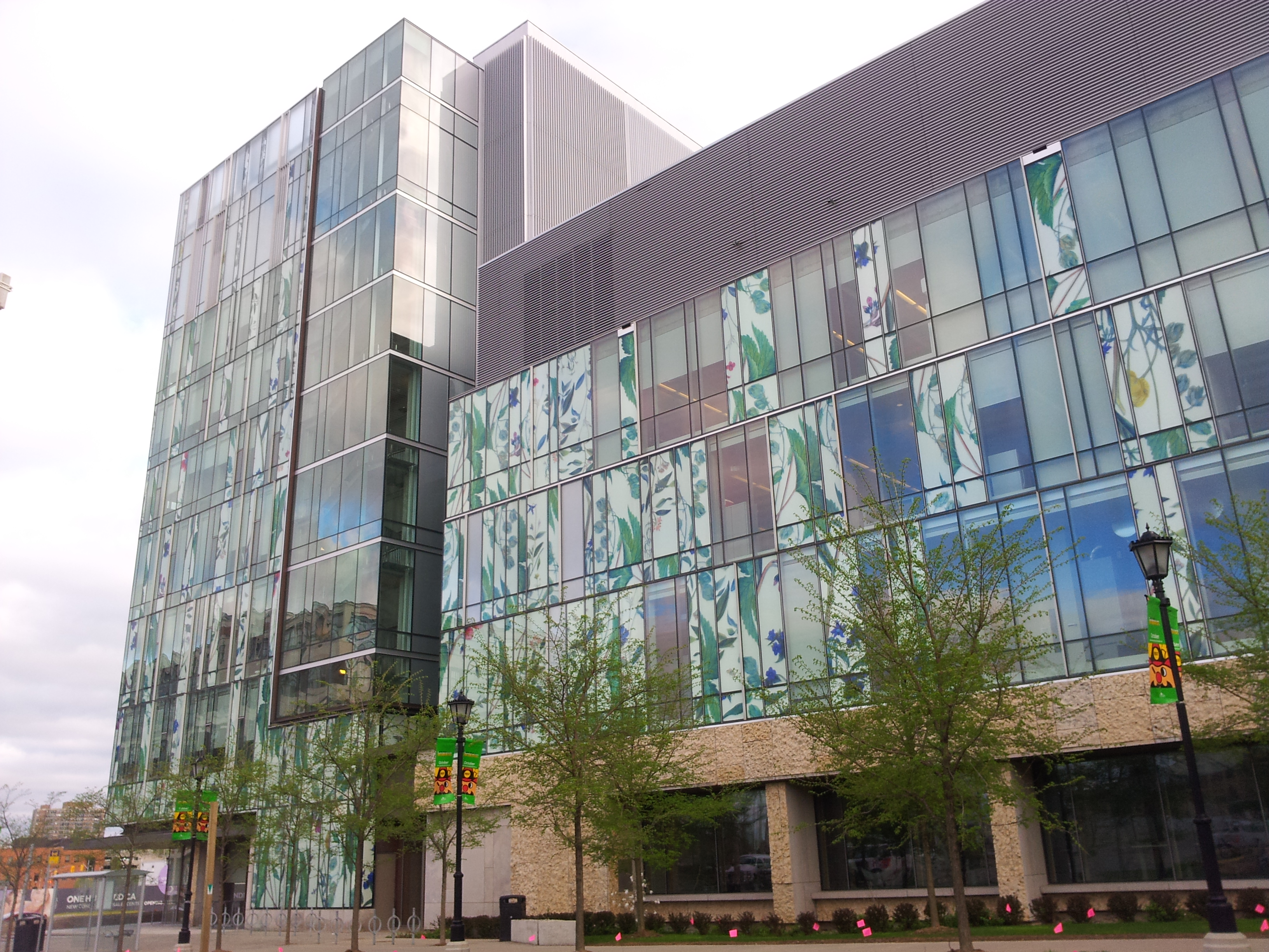 School of pharmacy